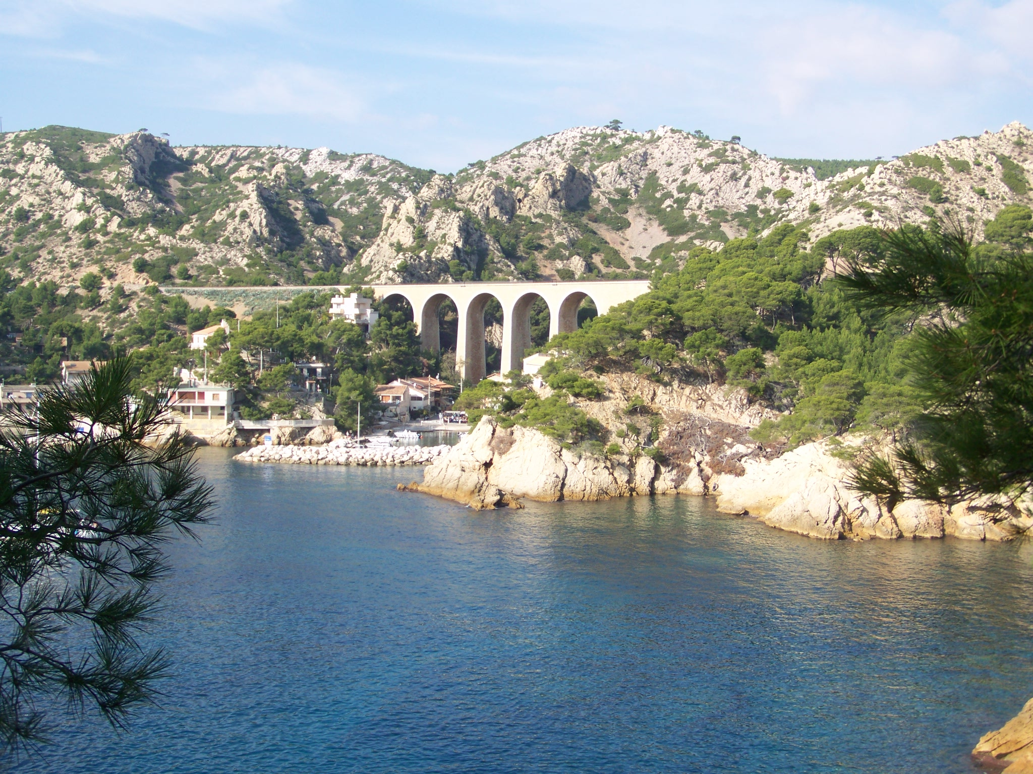 Sight on Méjean harbour on the French Côte bleue near Marseille, in Bouches-du-Rhône.